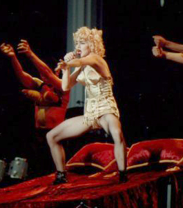 Photo taken during one of the 1990 concerts